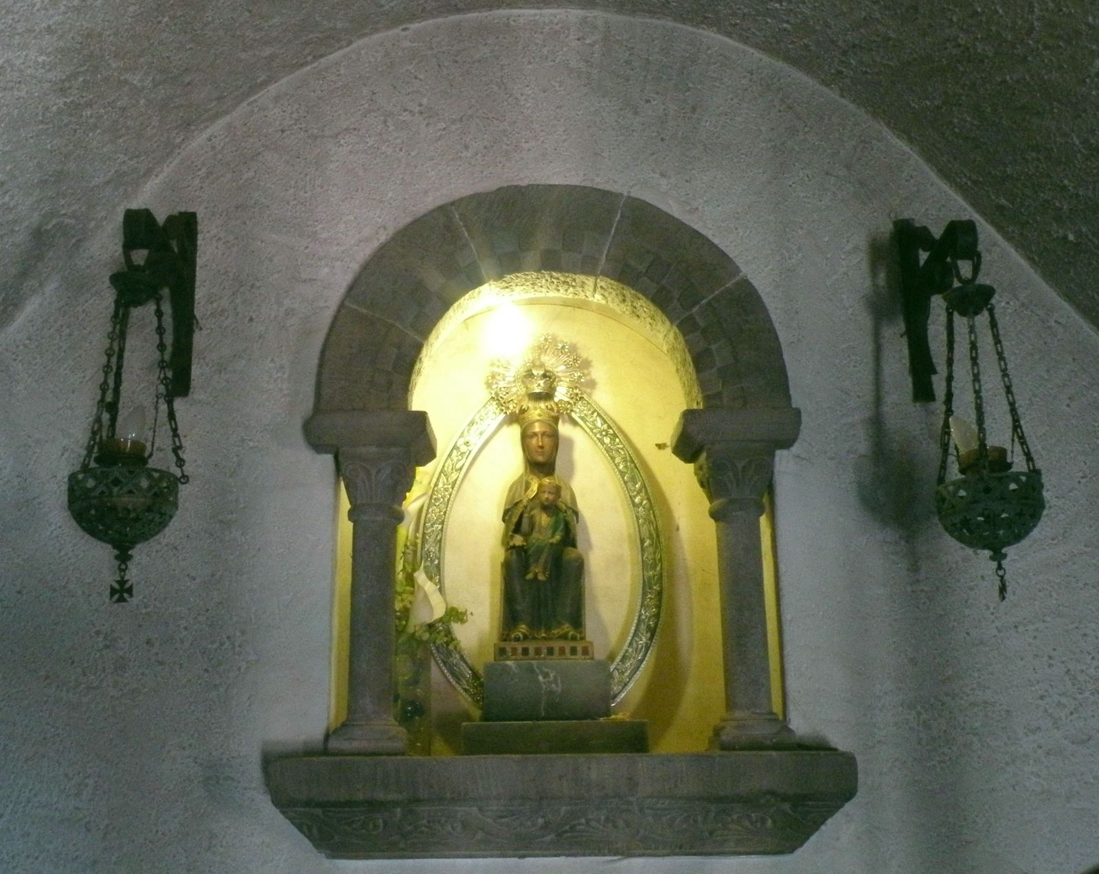 Image of Santa Maria of Montgrony